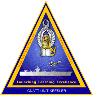 comand logo for Center For Naval Aviation Technical Training Unit Keesler